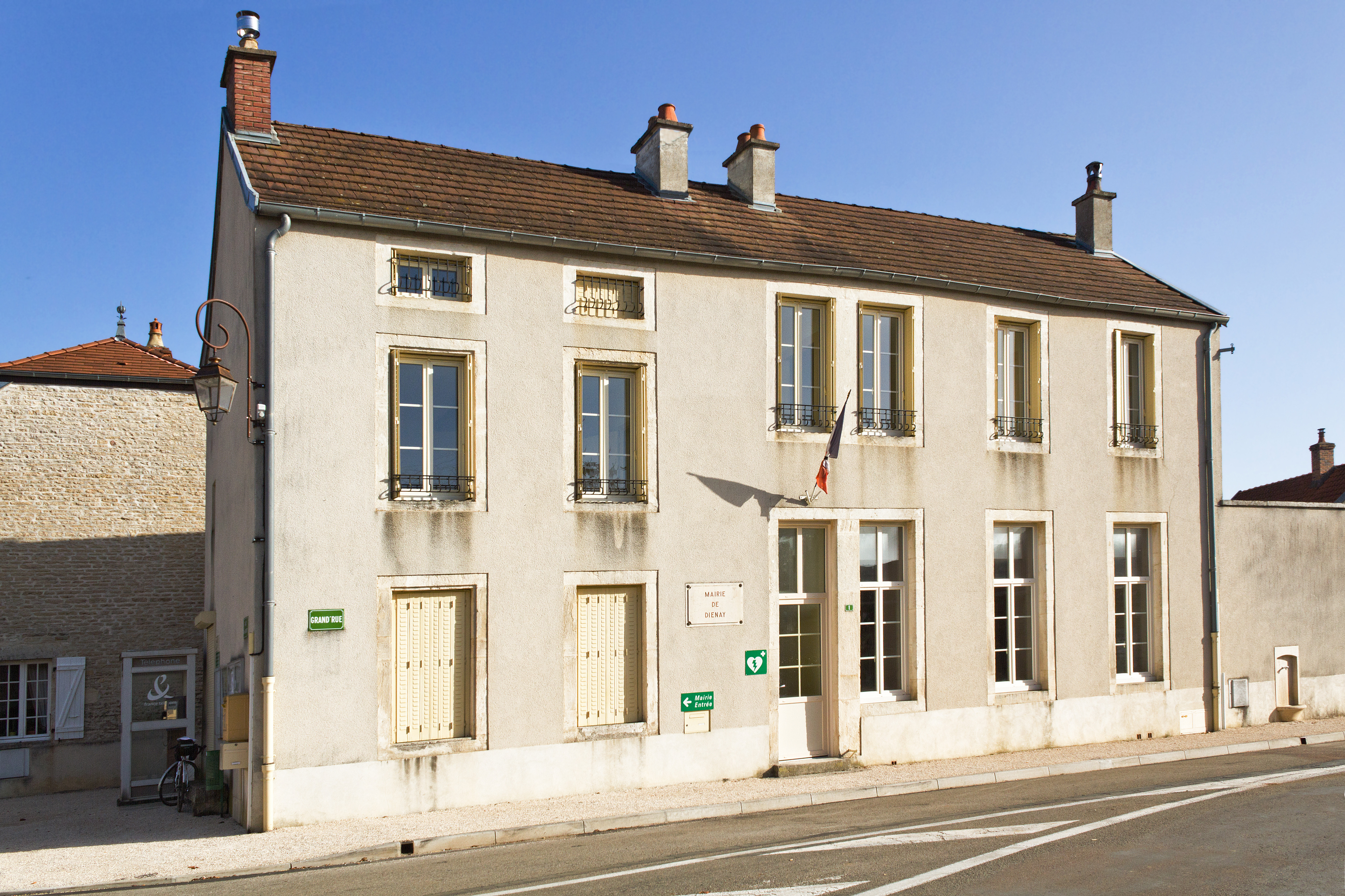 Diénay town hall